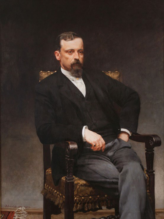 Painting of Henryk Sienkiewicz by Kazimierz Pochwalski